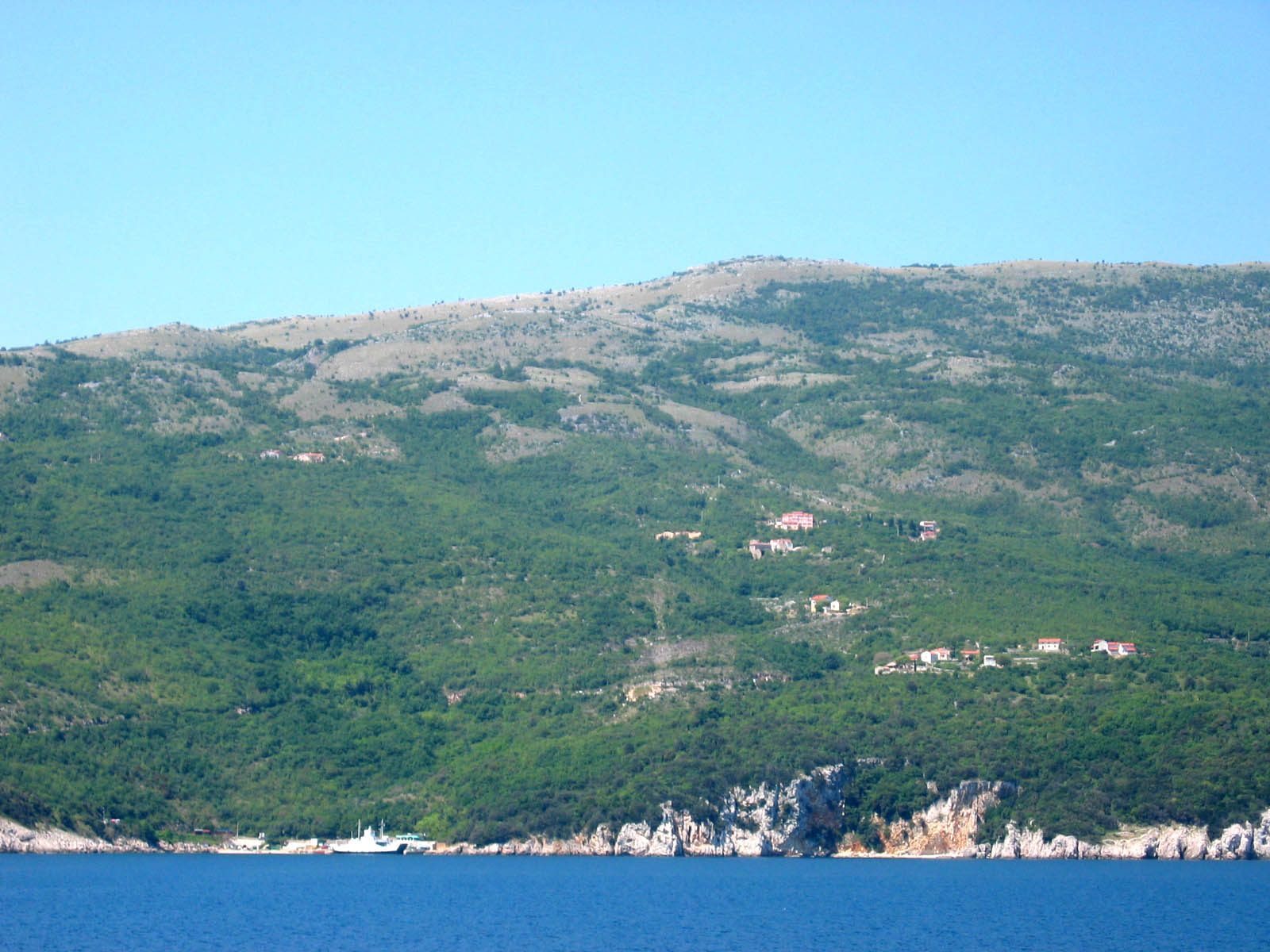 Brestova, ferry port from Istra to island Cres